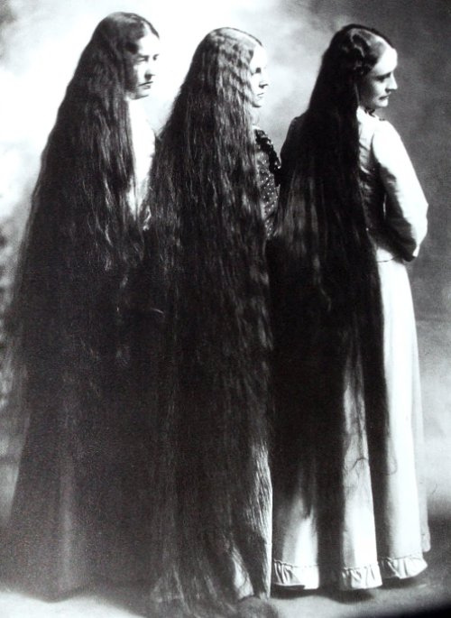 Three Women, a portrait by American photographer Belle Johnson (1864–1945)